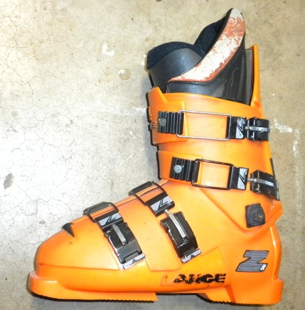 The image shows the left boot from a pair of Lange Z-R ski boots. The Z-R was the follow-on design to the famous XL-R. The only differences are a new buckle design that locks closed (the small flaps visible at the end of the buckles unlock them) and an adjustment for "cant", the side-to-side angle between the foot of the boot and the leg cuff above it (the black square at the ankle).